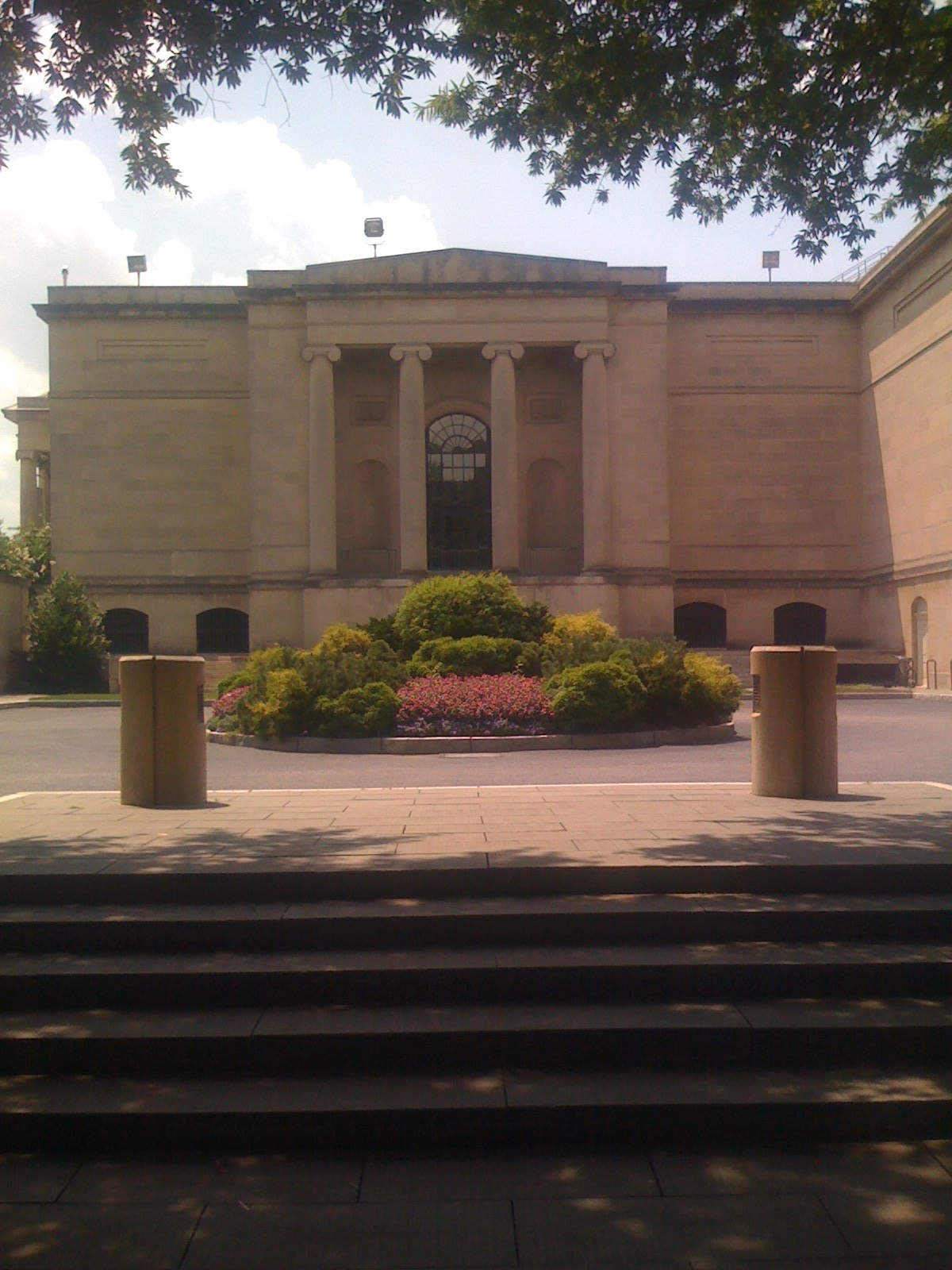 The Baltimore Museum of Art